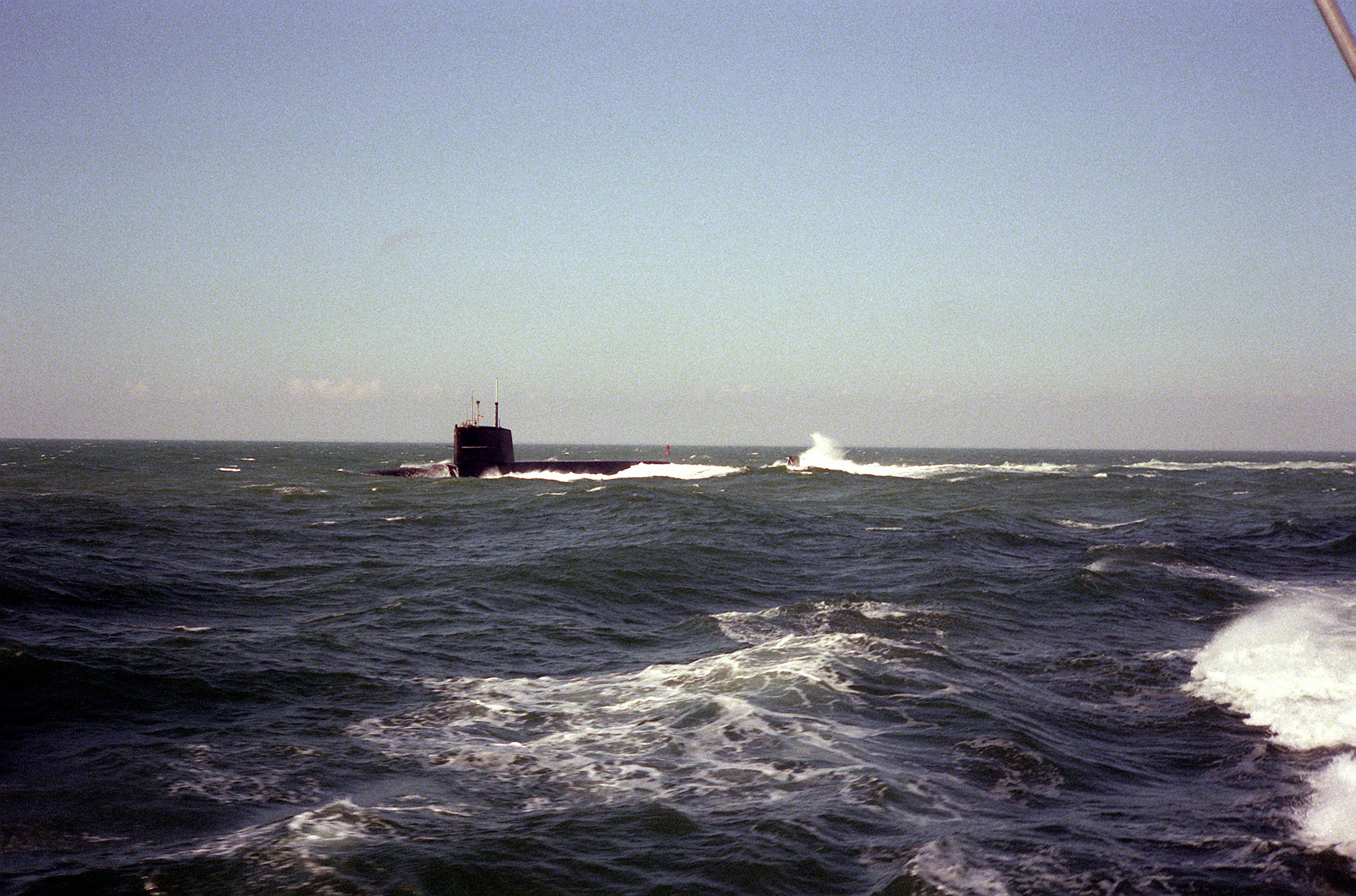 The U.S. Navy nuclear-powered ballistic missile submarine USS Tecumseh (SSBN-628) underway east of Charleston, S.C. (USA).